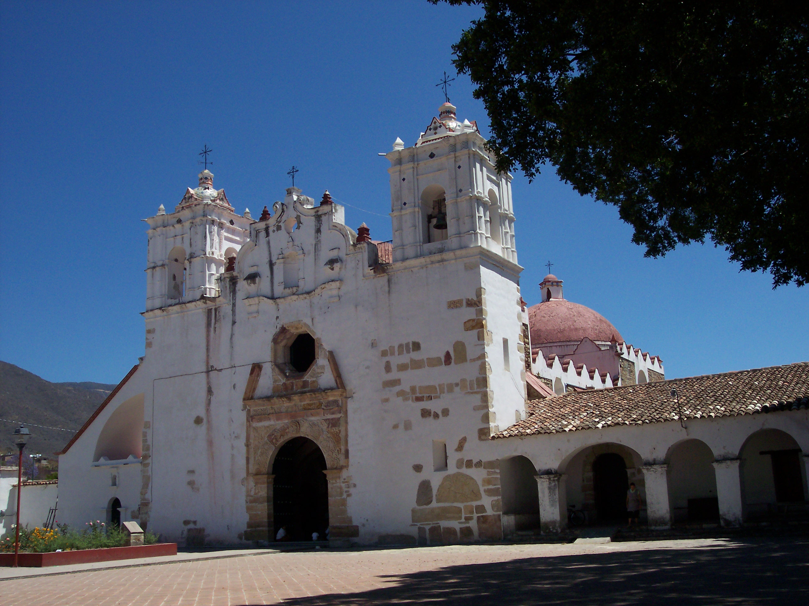 Main church of Teotitlán del Valle town. Century XVI Temple It was finished on october 20th, 1751 being the father Fray Jacobo Castillo SPANSIH: Iglesia principal Templo del Siglo XVI. Se terminó el dia 20 de octubre de 1751 siendo el padre Fray Jacobo Castillo Located in: Teotitlán del Valle, Oaxaca. Mexico.